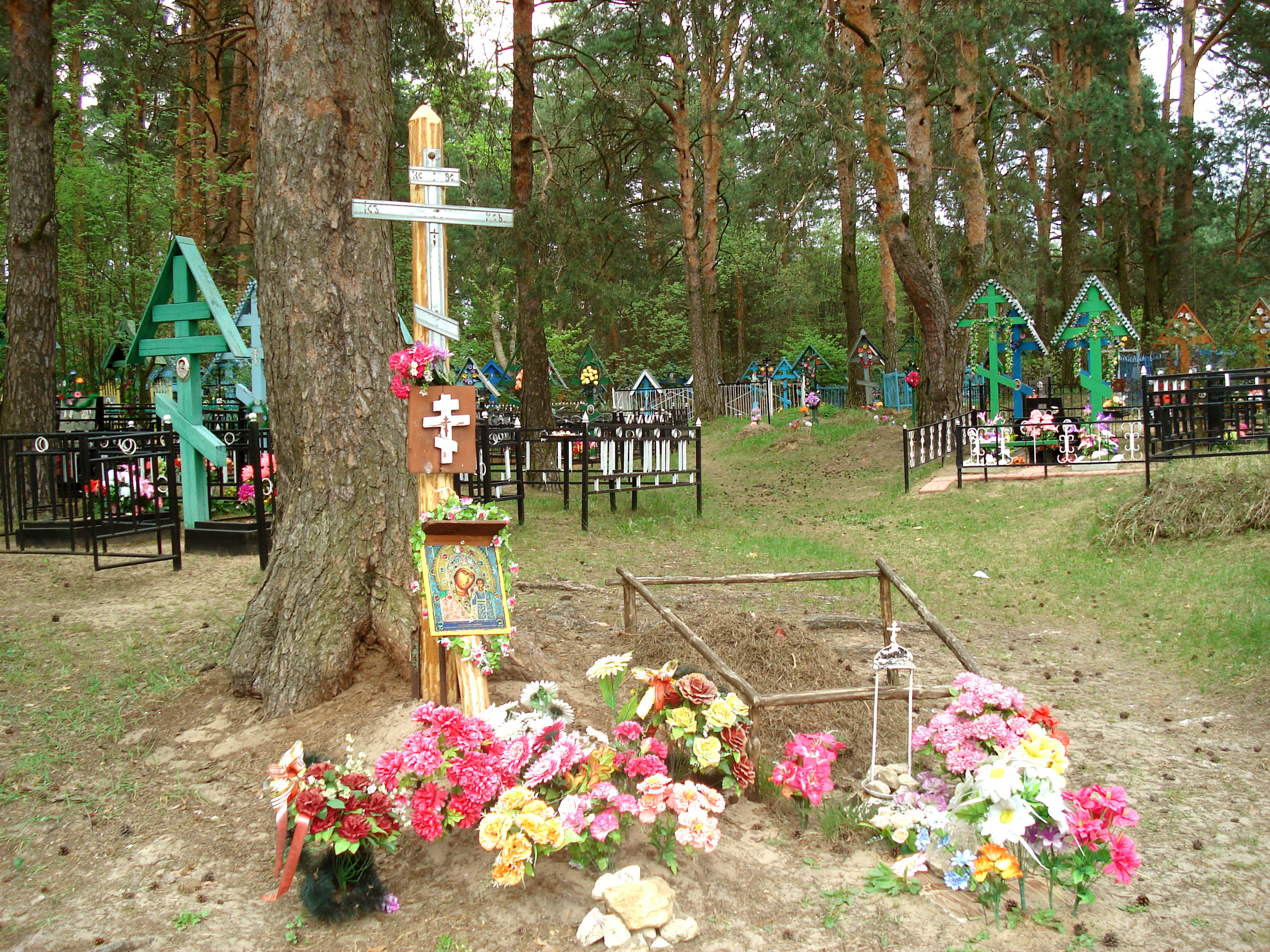 Belivo (Guslitsi) Old-Believers Cemetery. Moscow region.